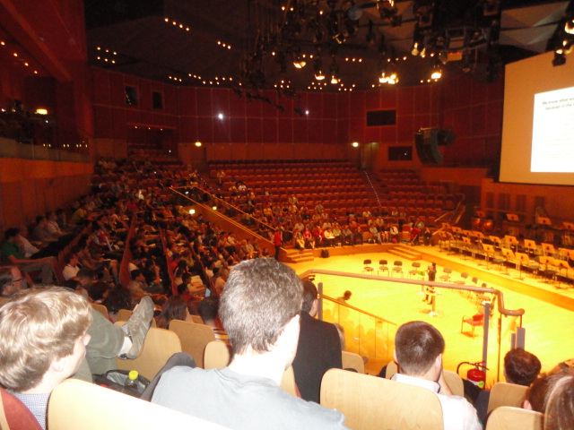 friday morning at baltic plilharmonic in wikimania 2010